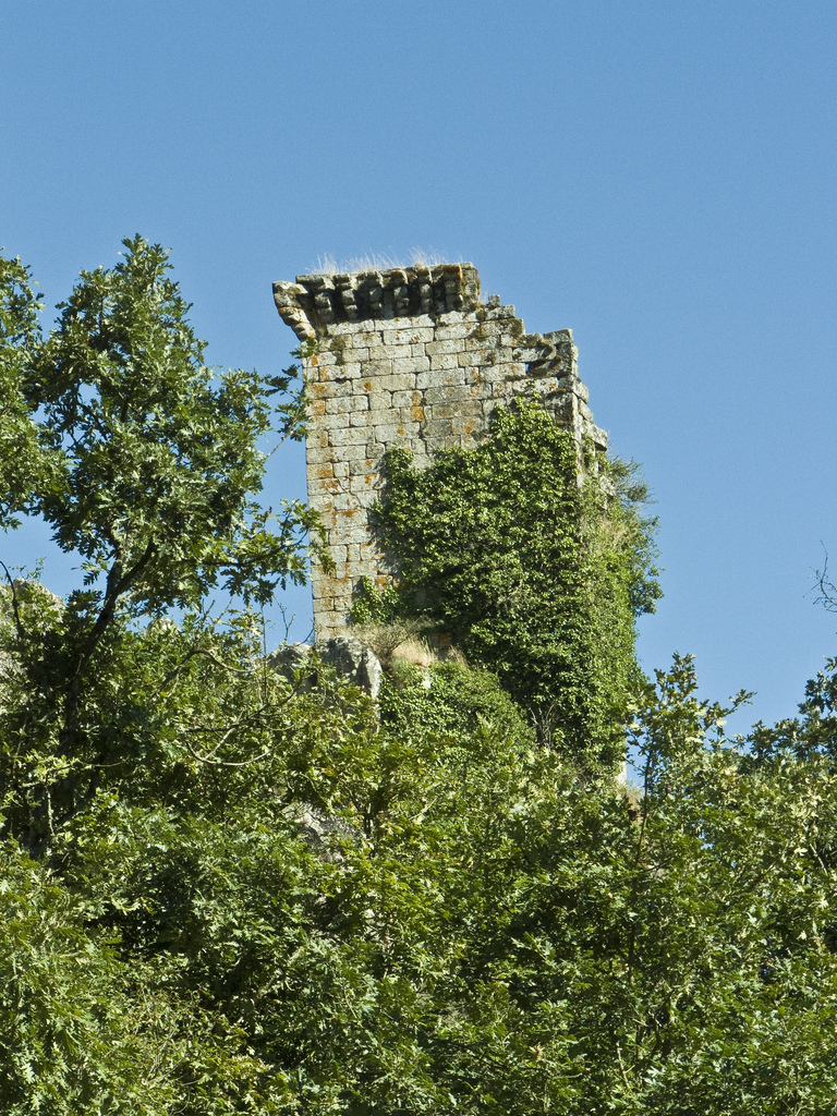 Sande tower - Ourense - Galiza - Spain